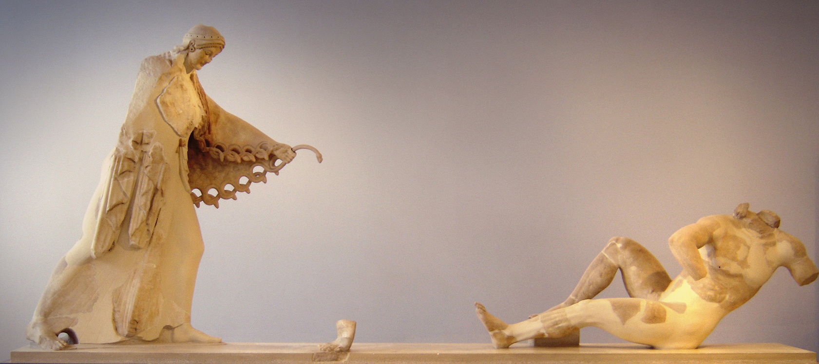 Athena fighting